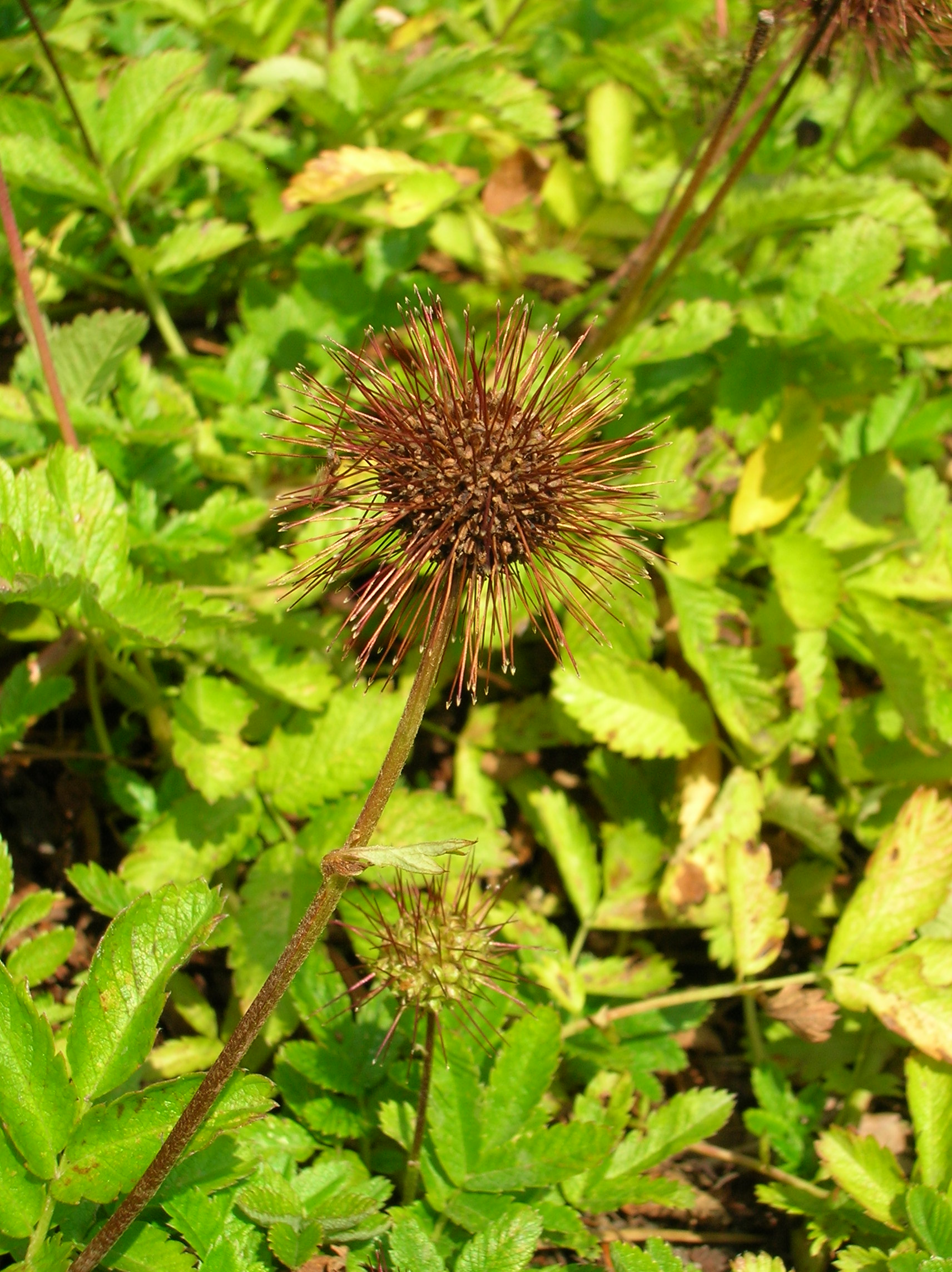 Acaena magellanica, photo was taken at the Ecological-Botanical Gardens in Bayreuth, Germany